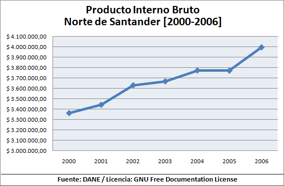 Gross Domestic Product of Norte de Santander, Colombia [2000-2006]